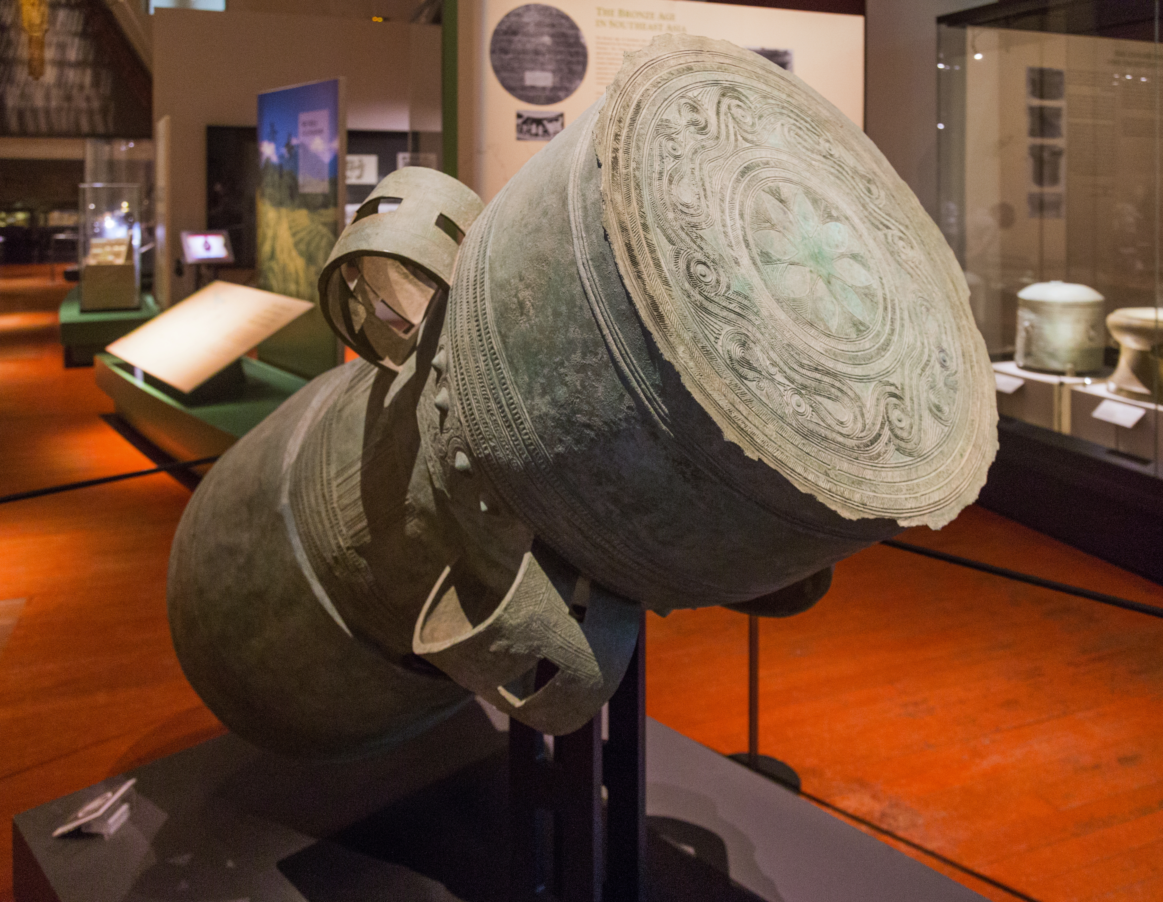 Pejeng-style bronze drum. East Java (Indonesia), 600 BC to 300 AD. Asian Civilisations Museum. Downtown Core, Central Region, Singapore.